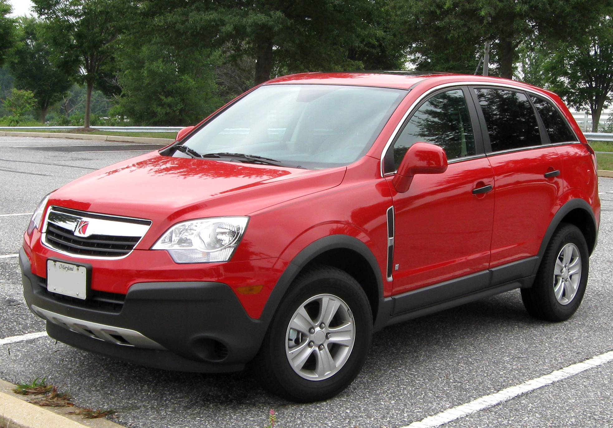 2008–2009 Saturn Vue photographed in Fulton, Maryland, USA.